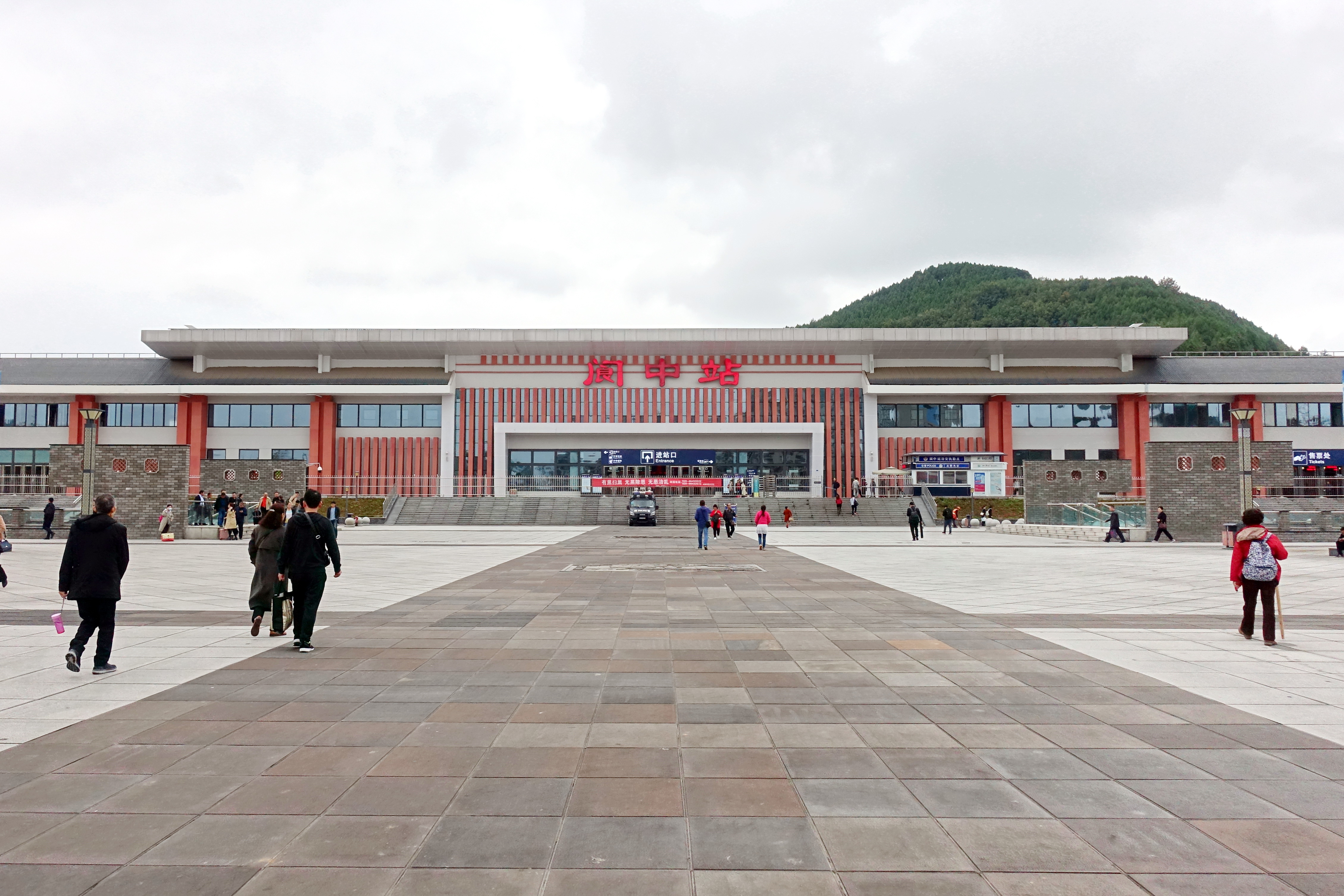 Langzhong railway station, Sichuan.